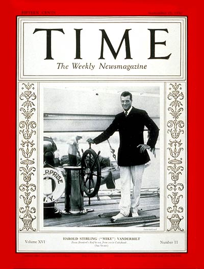 Harold Sterling "Mike" Vanderbilt on the cover of Time magazine volume 26 number 11, 15 September 1930